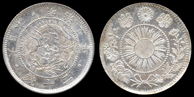 20sen-M3